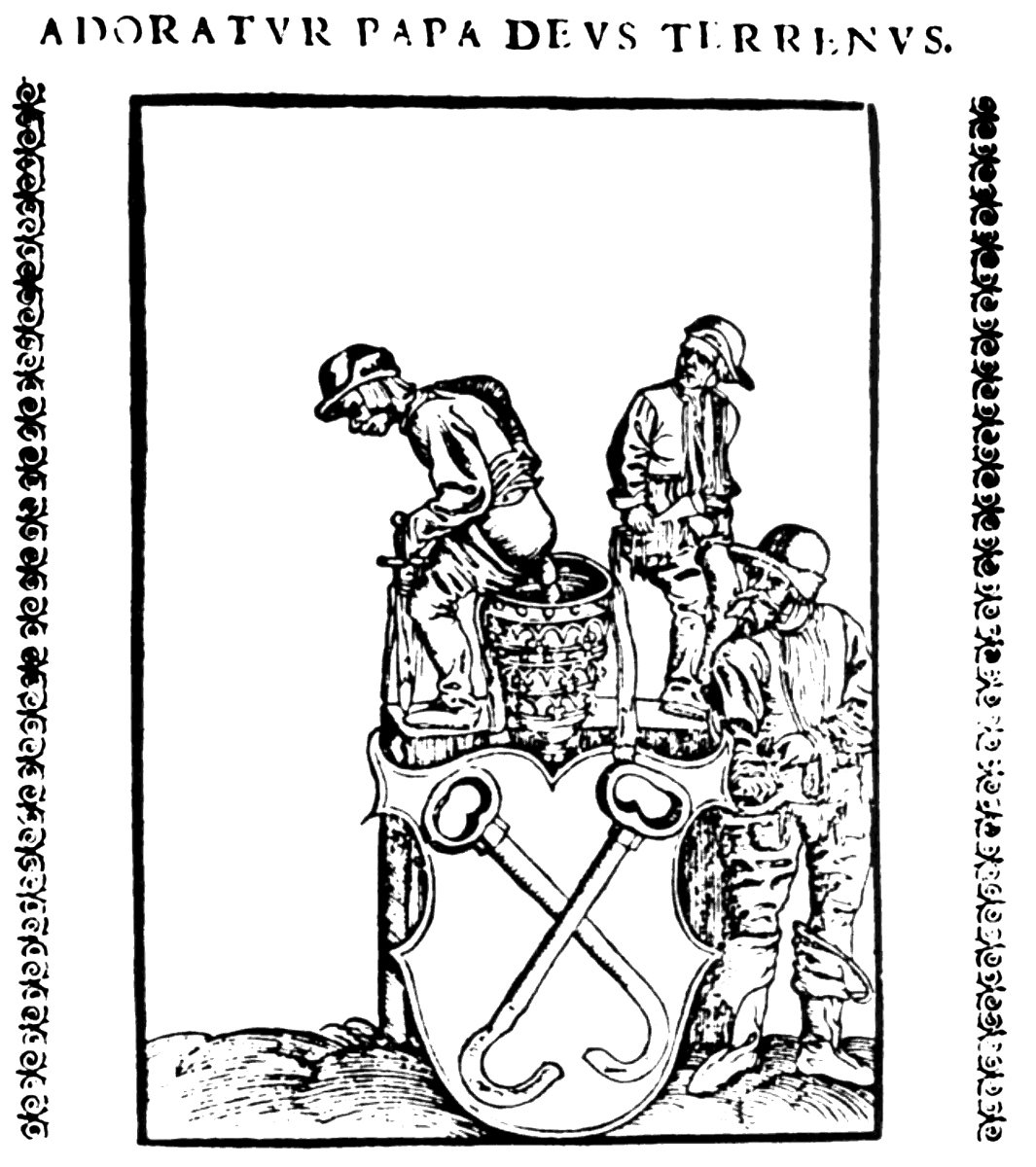 The Pope is Adored as an Earthly God by Lucas Cranach the Elder in the 1545 publication of Luther's Depiction of the Papacy. The papal tiara is a symbol of the pope's authority.